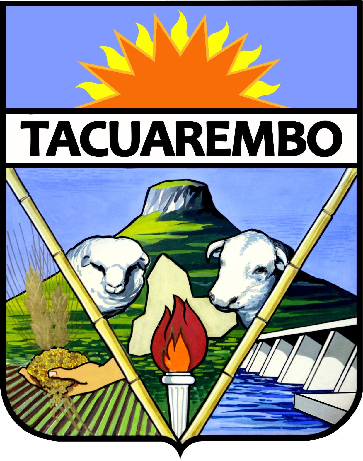 Coat of Arms of the Department of Tacuarembó, Uruguay. The Cerro Batoví is a notable feature shown on it.